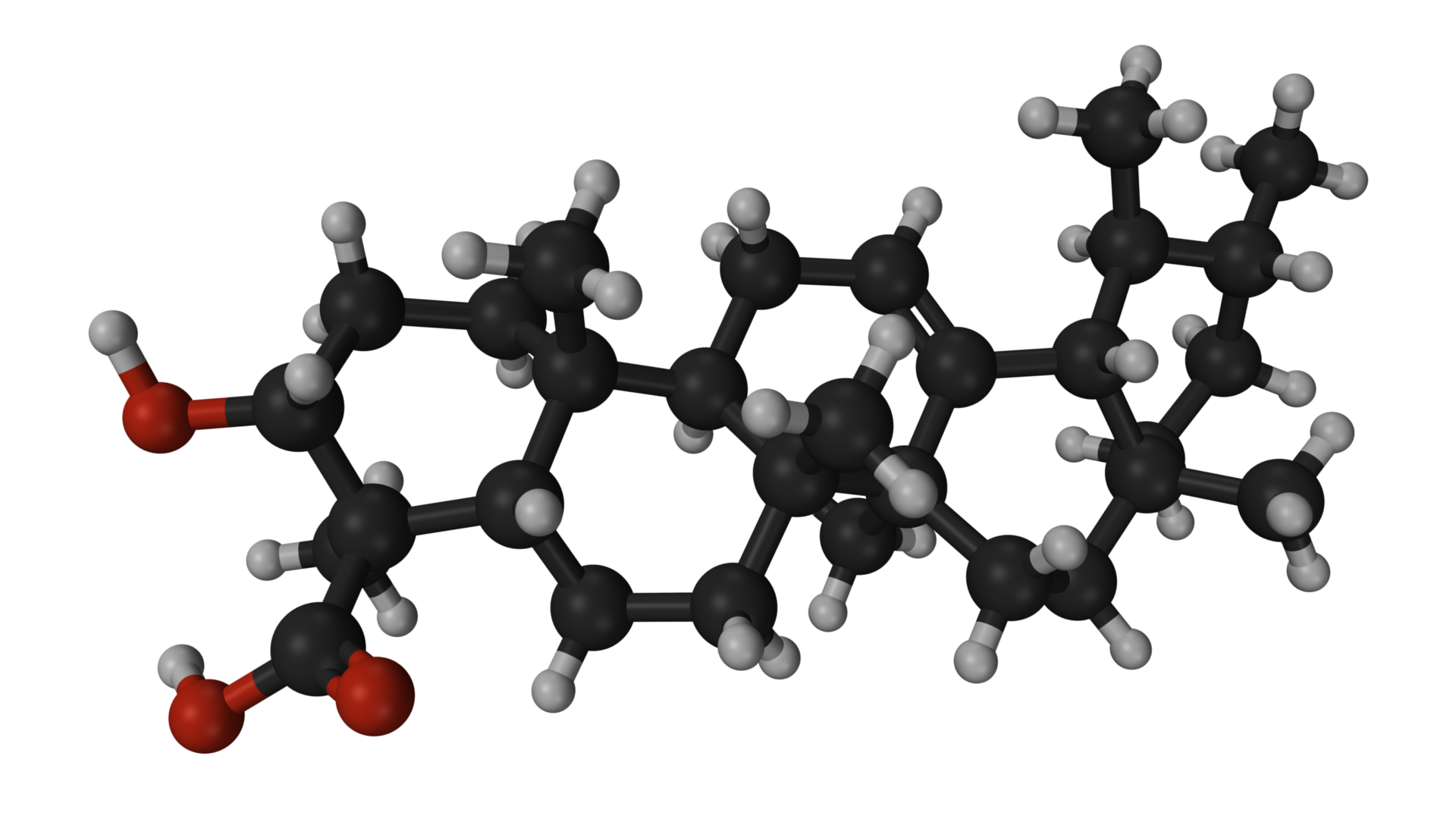 3D model of beta-Boswellic Acid, created from .pdb file.